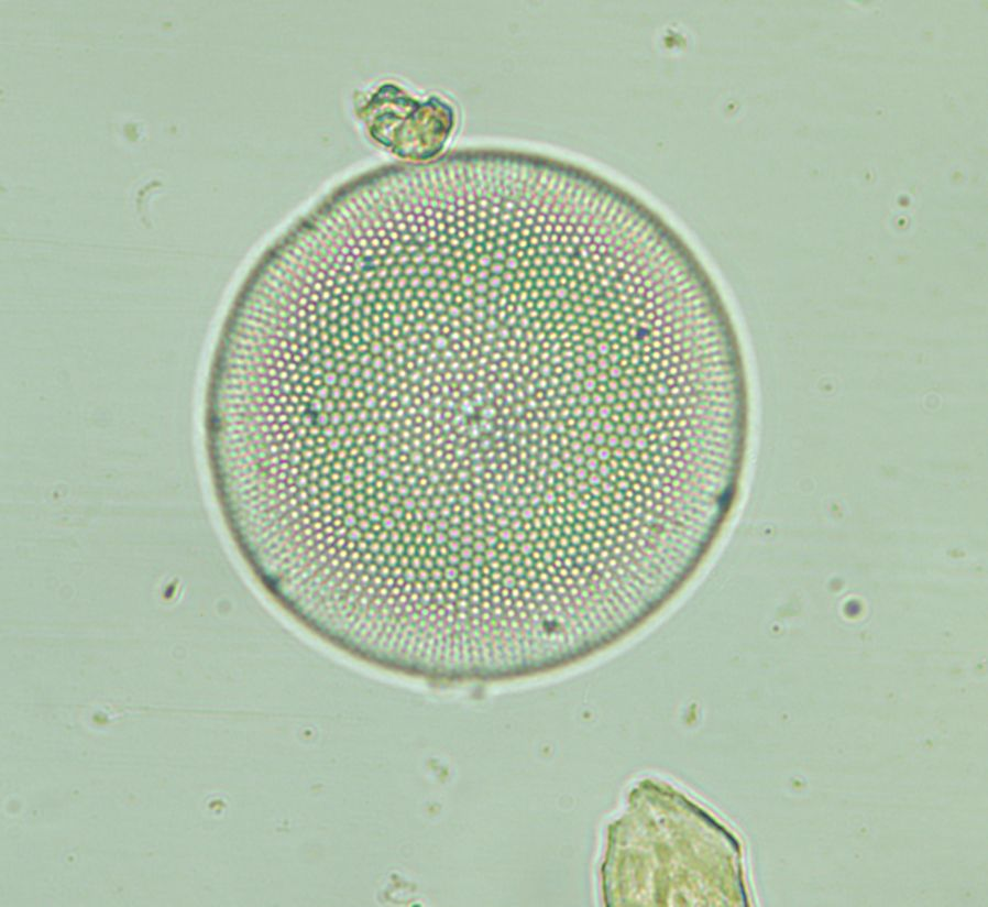 Coscinodiscus radiatus 600x